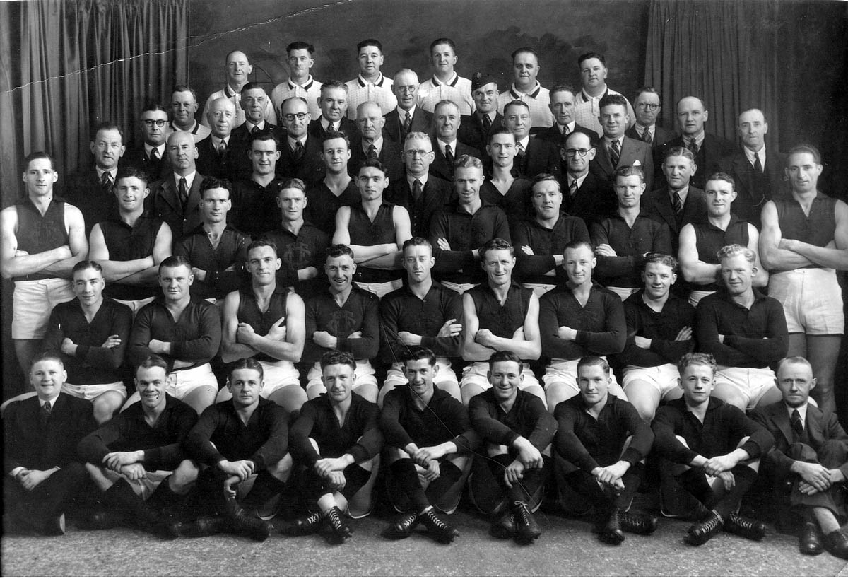 Team of Fitz Roy, premiers